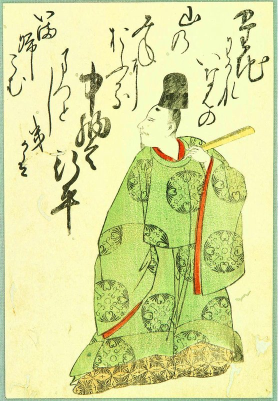 Shunsho Katsukawa (1726-1792) Poet Ariwara no Yukihira – Hyakunin Issu (100 Poems by 100 Poets)